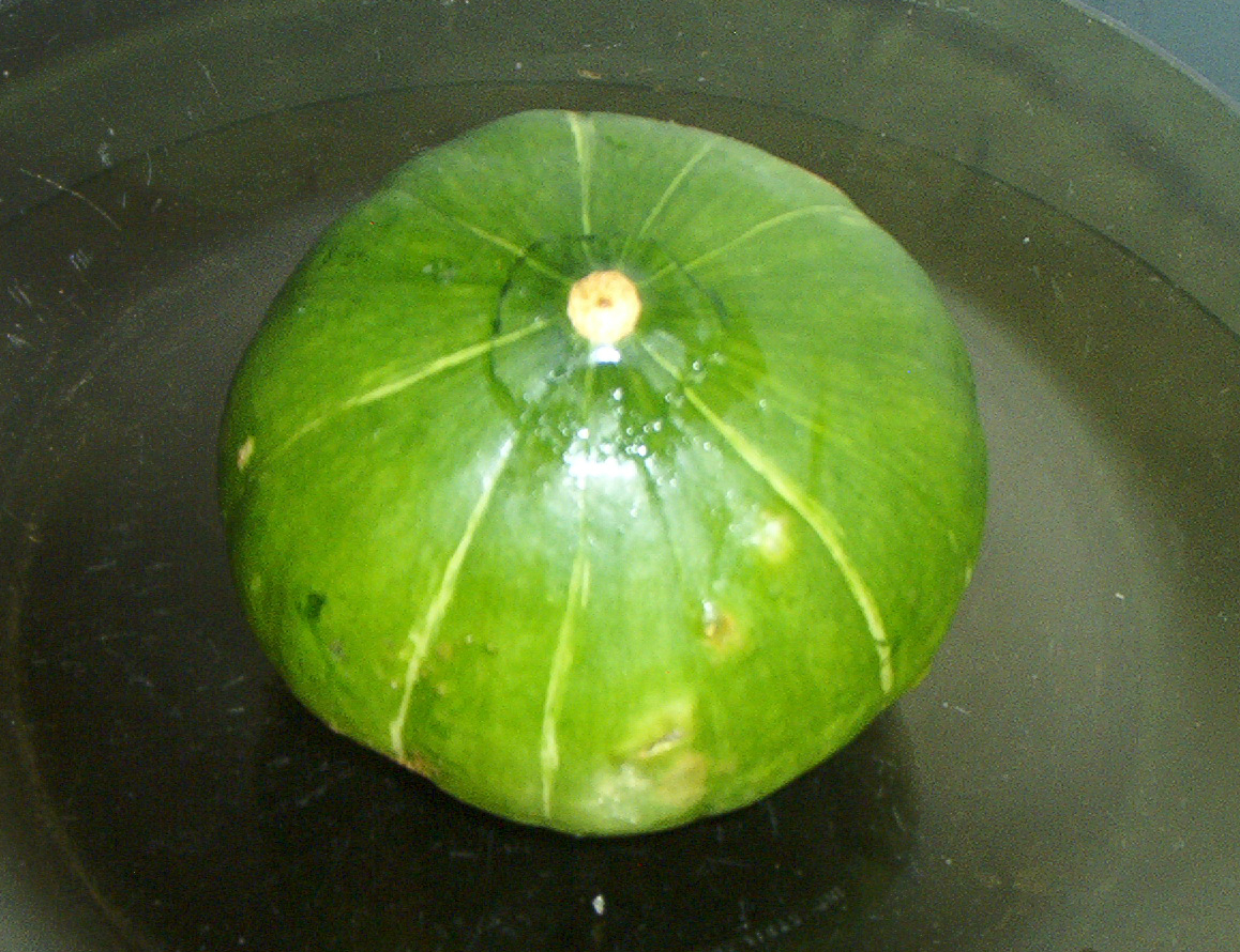 Cucurbita maxima Zapallito Group - immature fruit ready for consumption. From a cultivar with narrow light stripes in a dark green skin. Fruit buyed in a market at partido de Rivadavia, provincia de Buenos Aires, Argentina, february 2014.